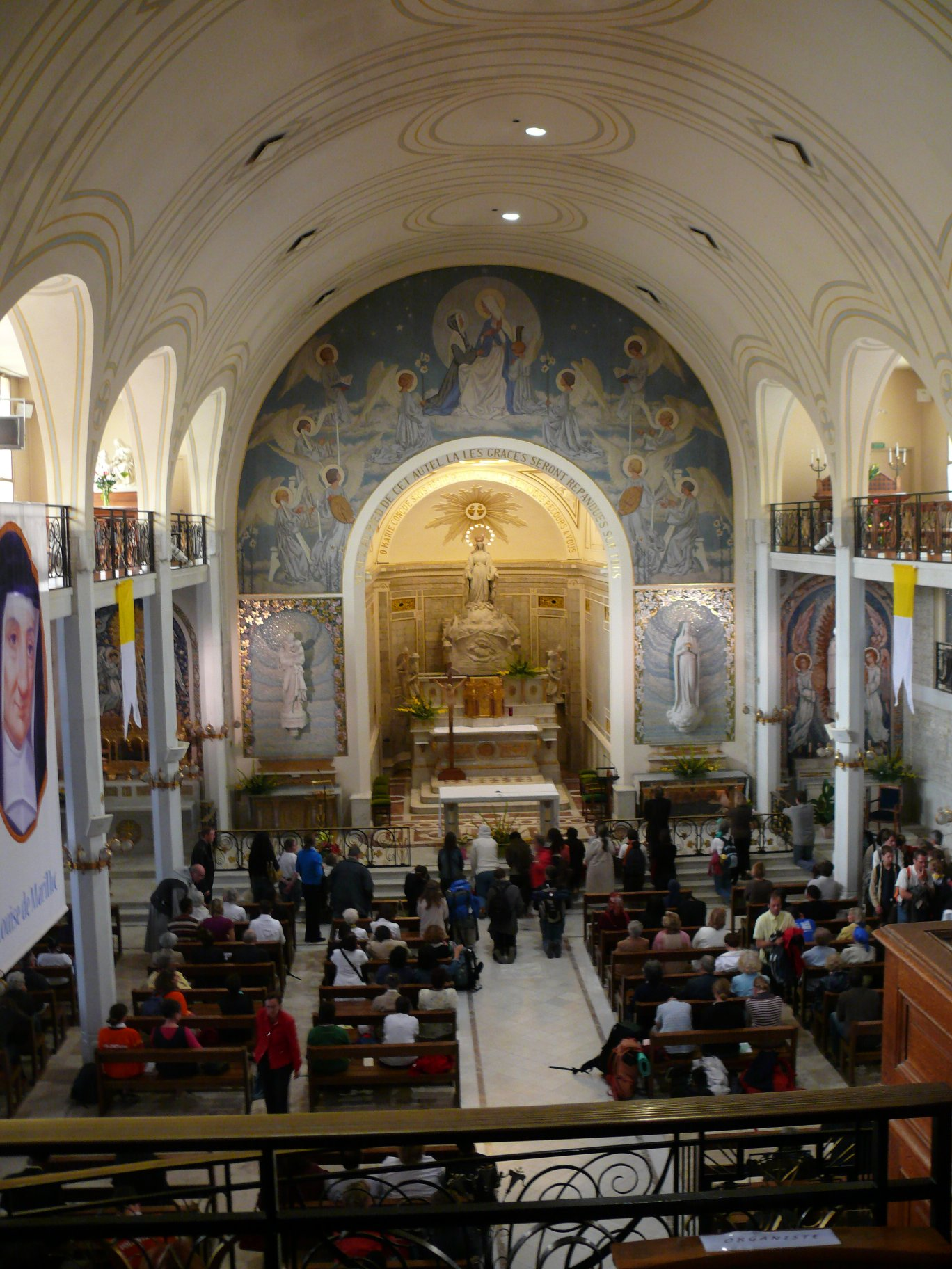 The chapel of Our Lady of the Miraculous Medal in Paris (Île-de-France, France).